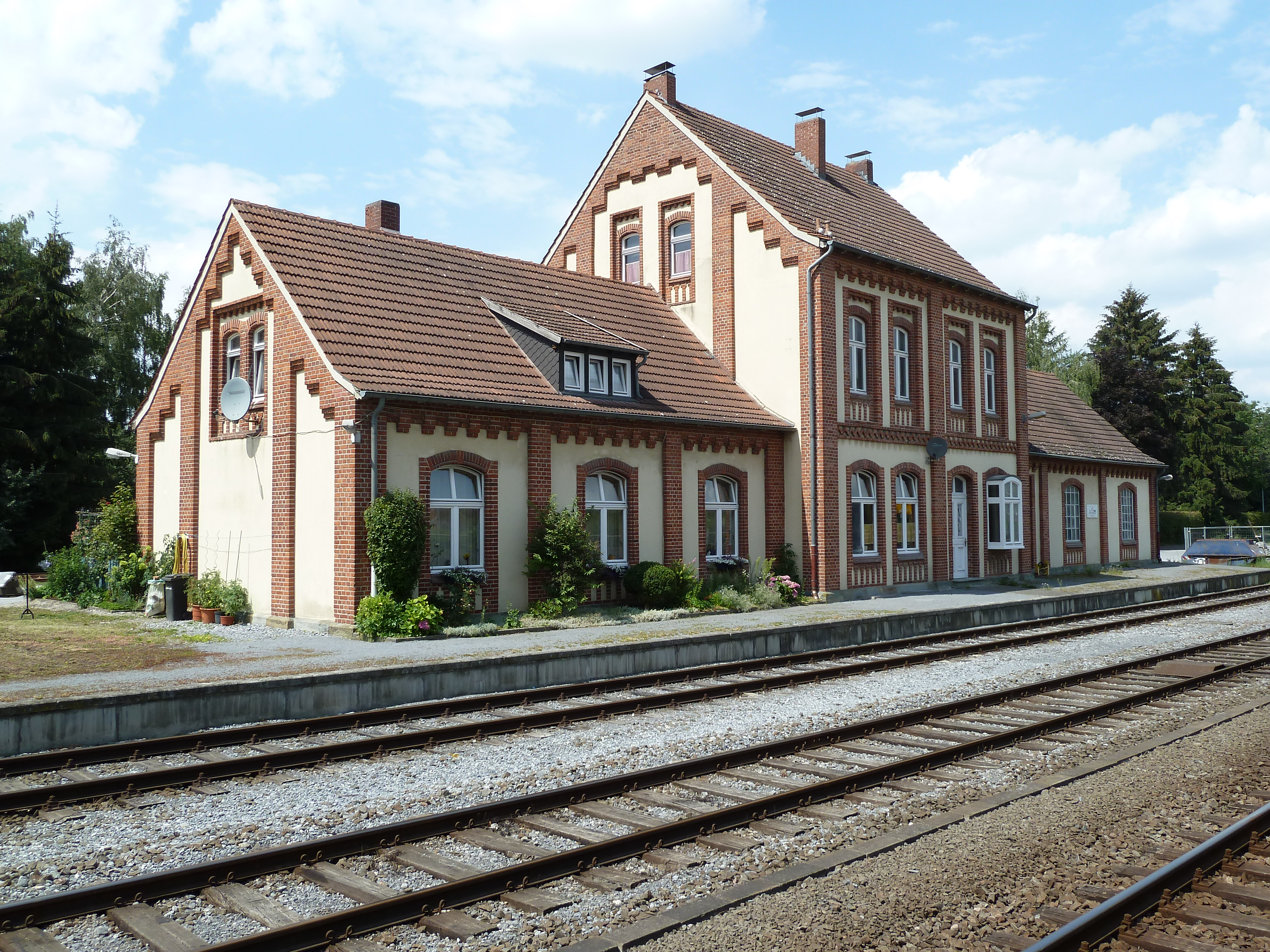 Railway station in Erwitte